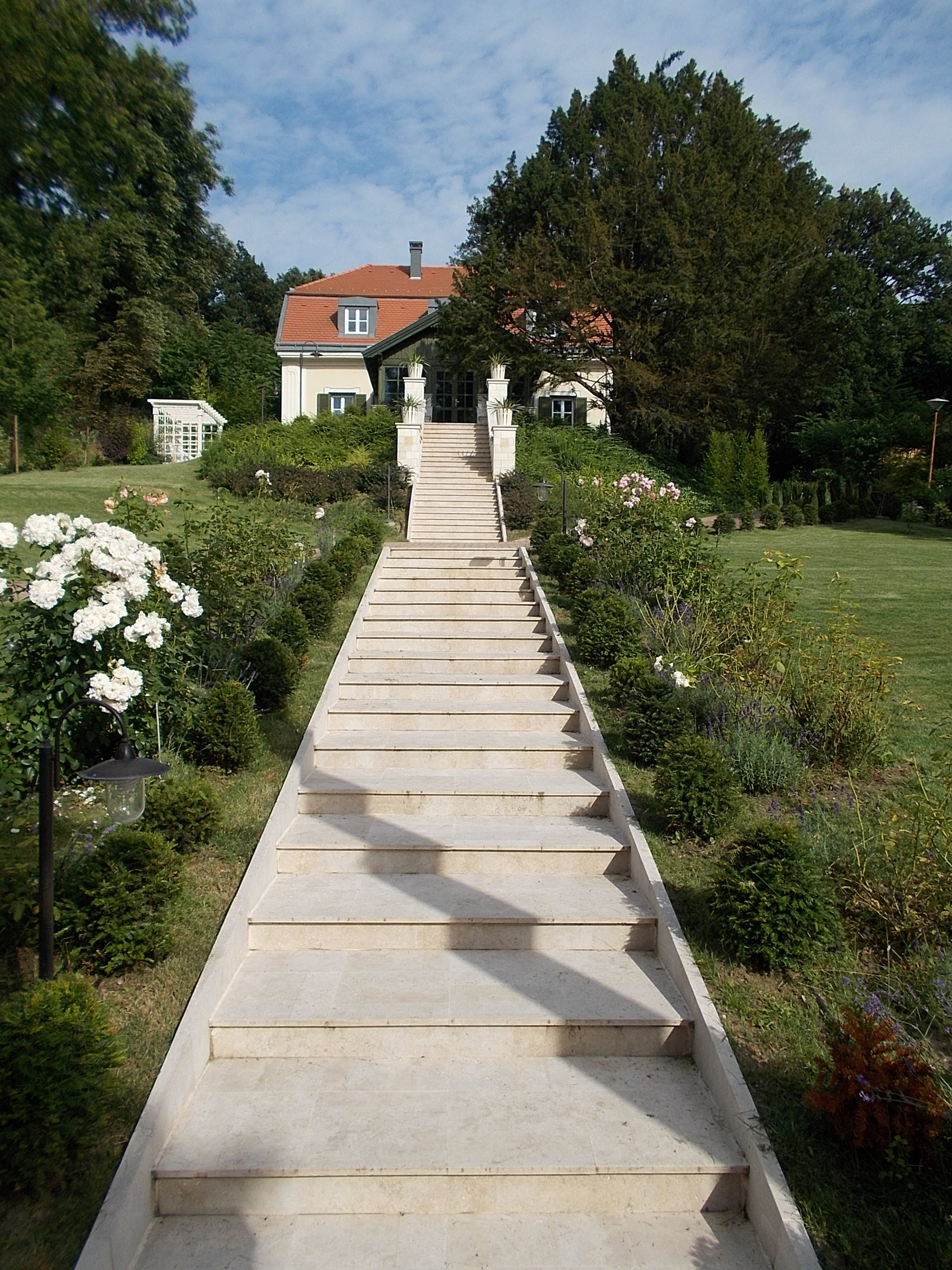 Listed villa. - 50 Bartók Béla Street, Bélatelep, Fonyód, Somogy County, Hungary.